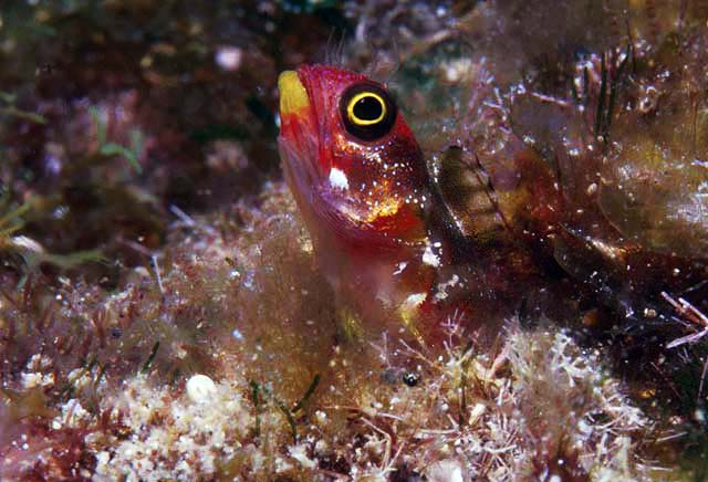 Acanthemblemaria mangognatha